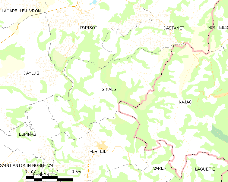 Map of French municipality Ginals